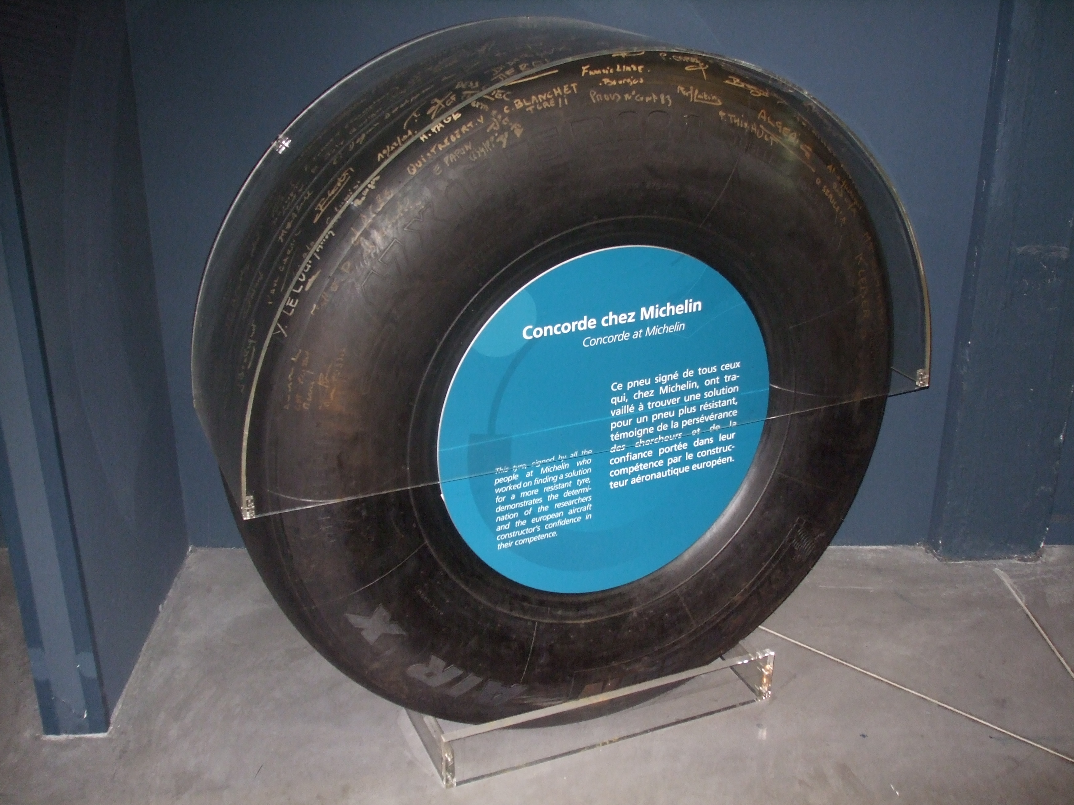 The Michelin Adventure in Clermont-Ferrand describes the rôle of Michelin in the development of the tyre. The tyre developed for Concorde, signed by all the developers who worked on the tyre.